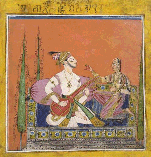 Ragaputra Velavala, Bhairavi Raga Basohli, Punjab Hills, c. 1710